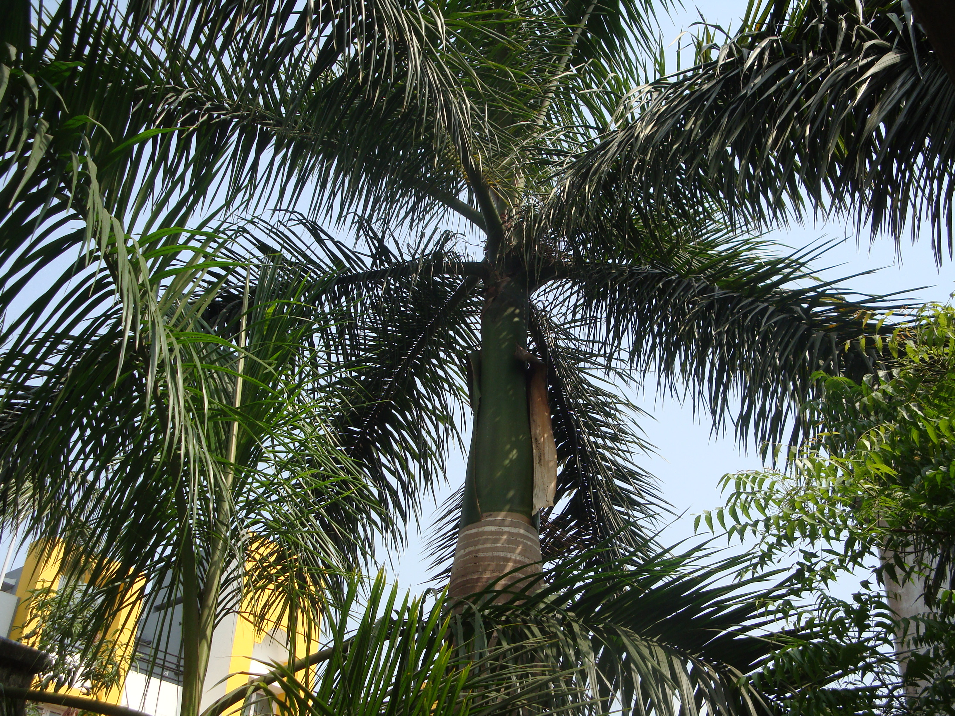 Two Roystonea regia palms in summer